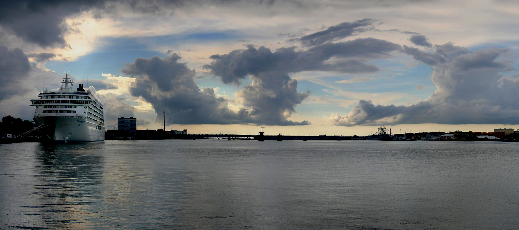 The cruise ship The World at port in Aalborg, Denmark, 2004